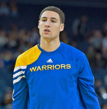 Klay Thompson with the Golden State Warriors